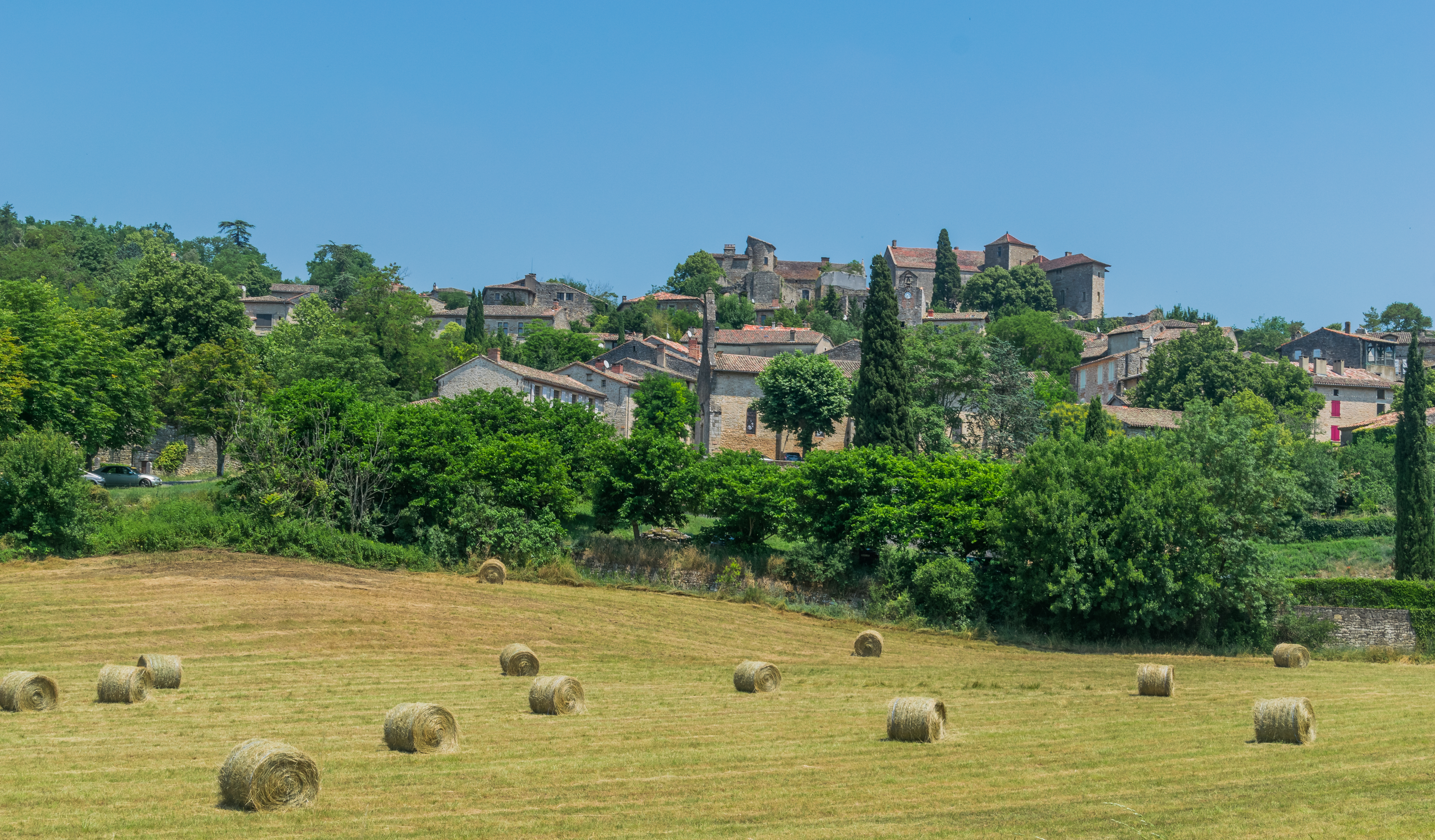 View on Bruniquel, Tarn-et-Garonne, France